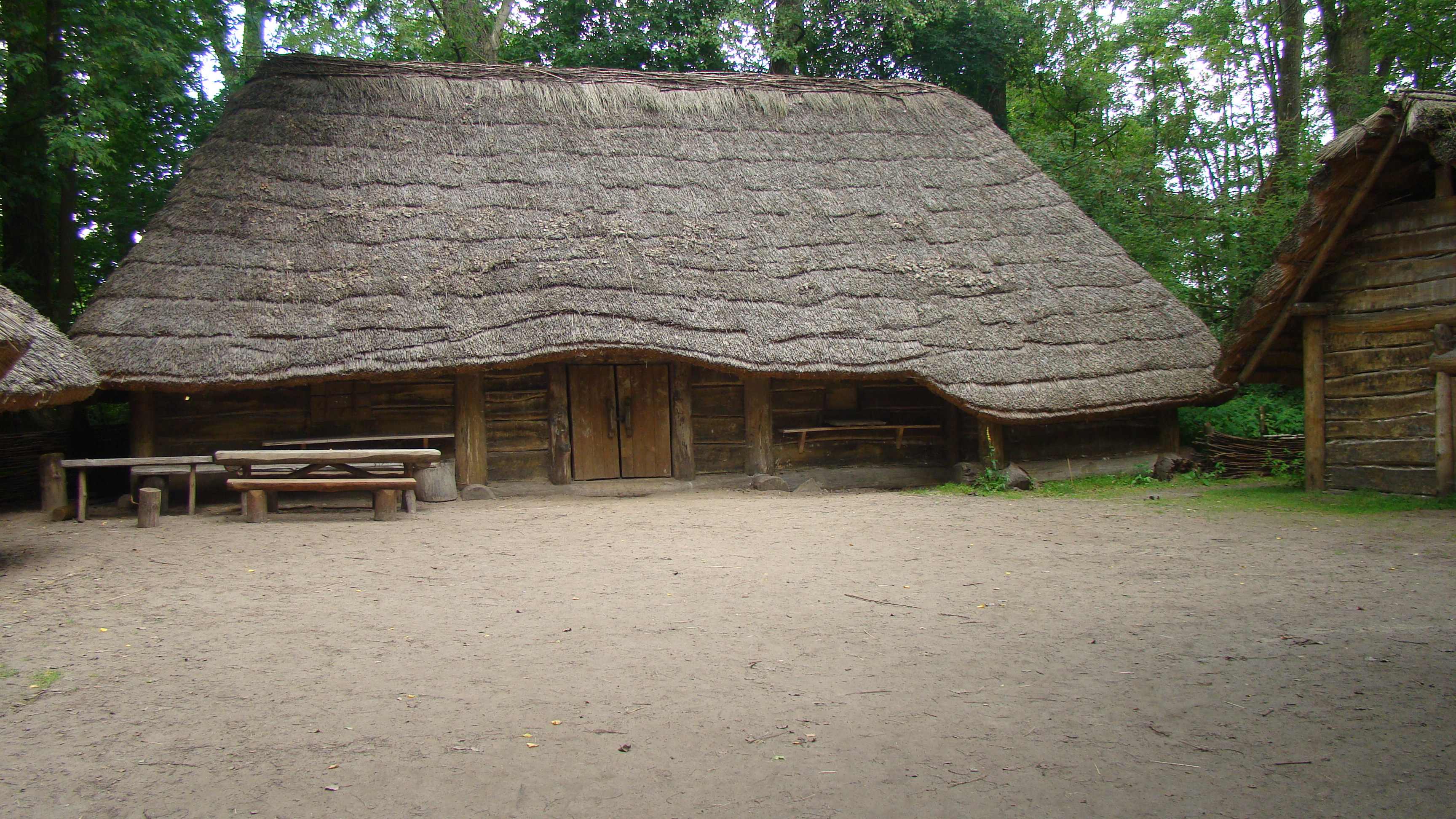 Biskupin